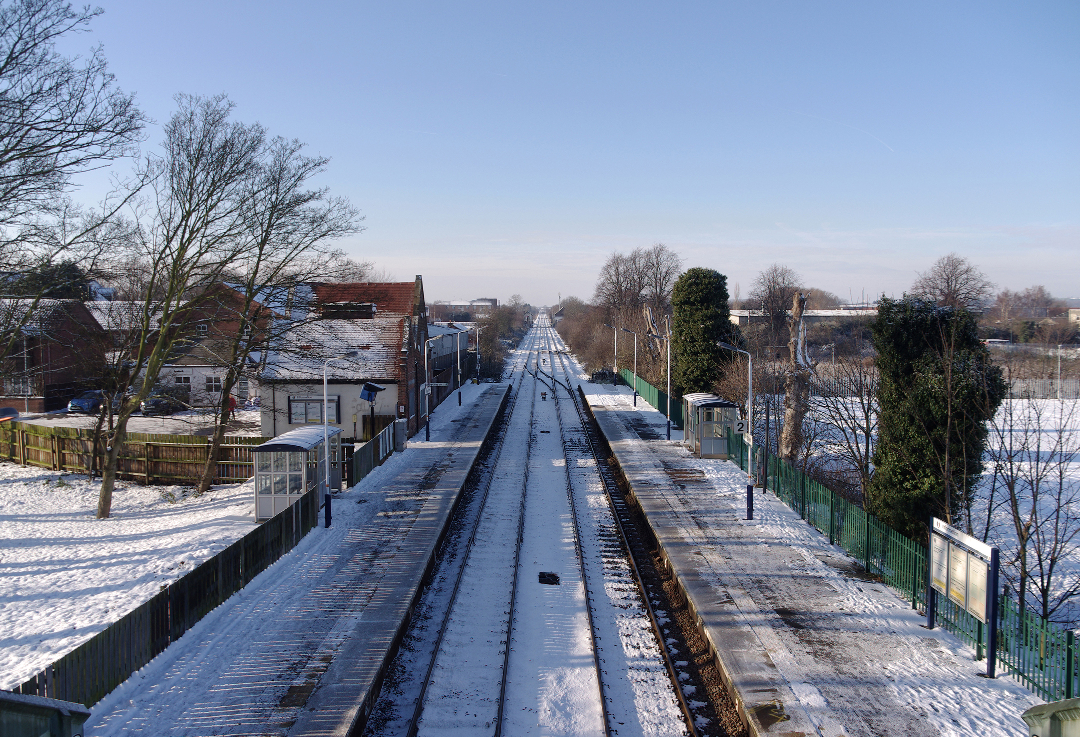 Bingham railway station in the snow, looking west.